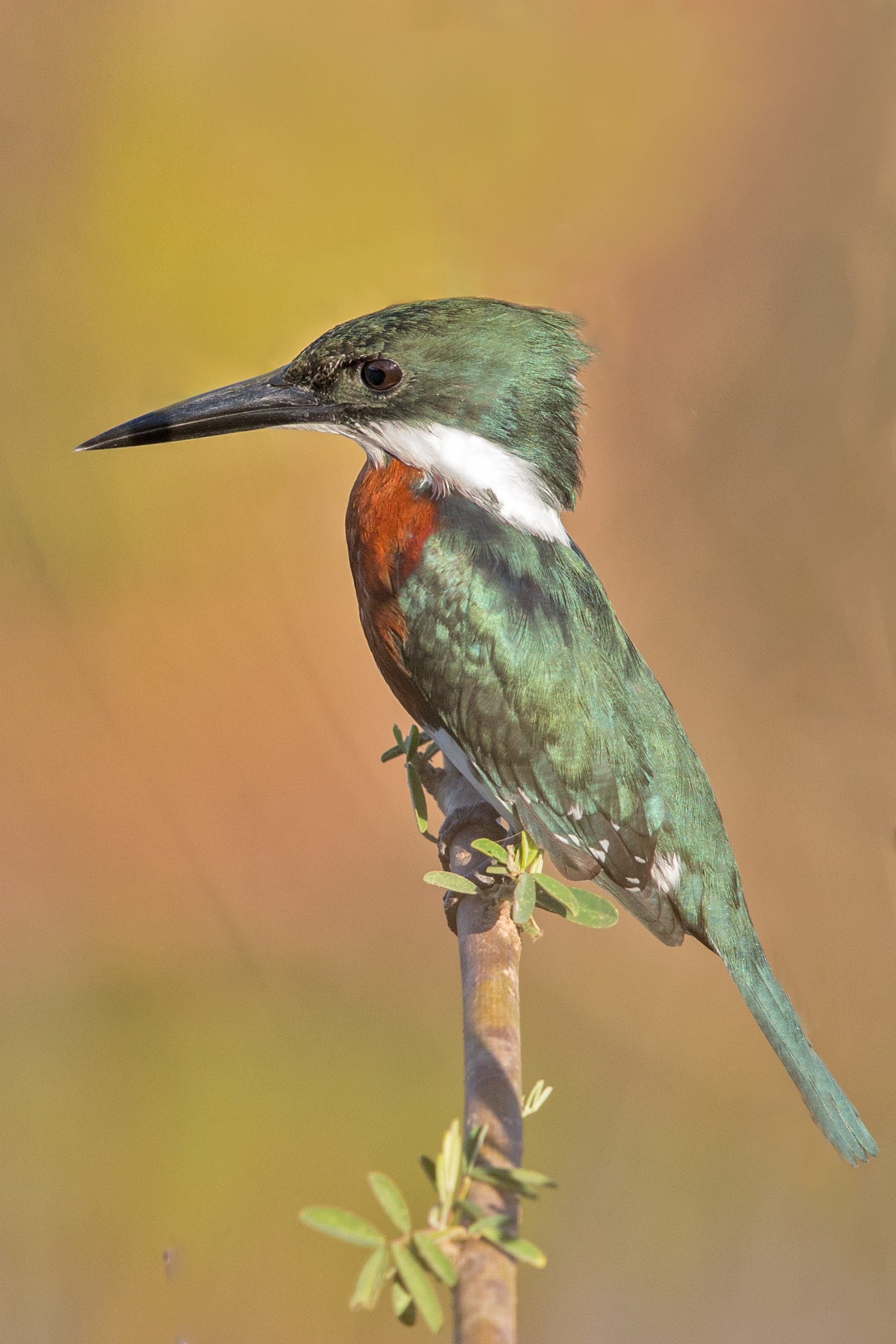 Green kingfisher